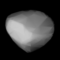 3D convex shape model of 388 Charybdis, computed using light curve inversion techniques. J. Hanuš, J. Ďurech, M. Brož, B. D. Warner (June 2011). "A study of asteroid pole-latitude distribution based on an extended set of shape models derived by the lightcurve inversion method". Astronomy and Astrophysics 530: A134. ISSN 0004-6361. arXiv